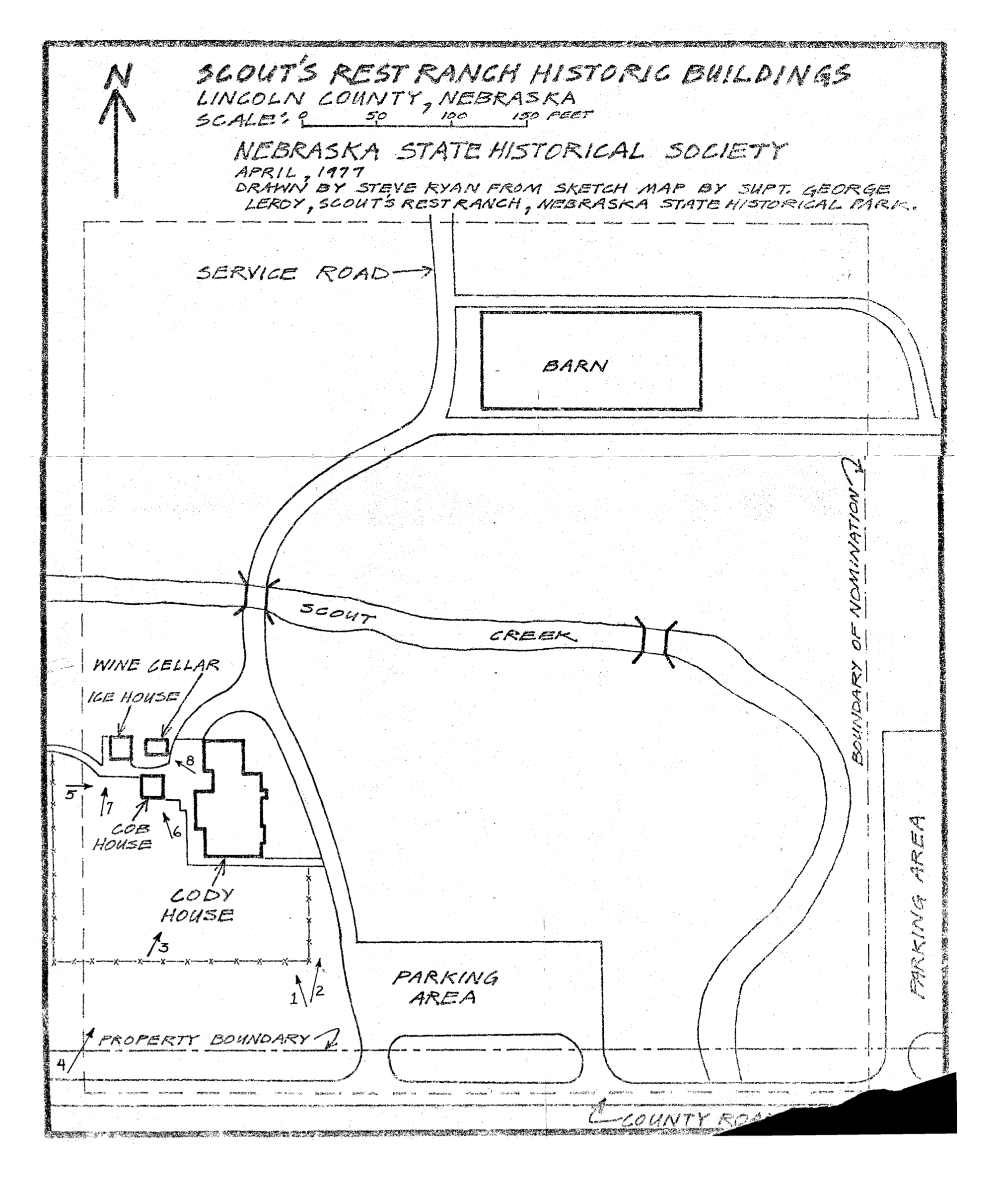 Drawn by Steve Ryan from a sketch map by Supt. George Lerdy, Scout's Rest Ranch, Nebraska State Historical Park.